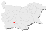 Map of Bulgaria, the red point is the position of Batak.